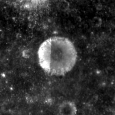 Clementine image